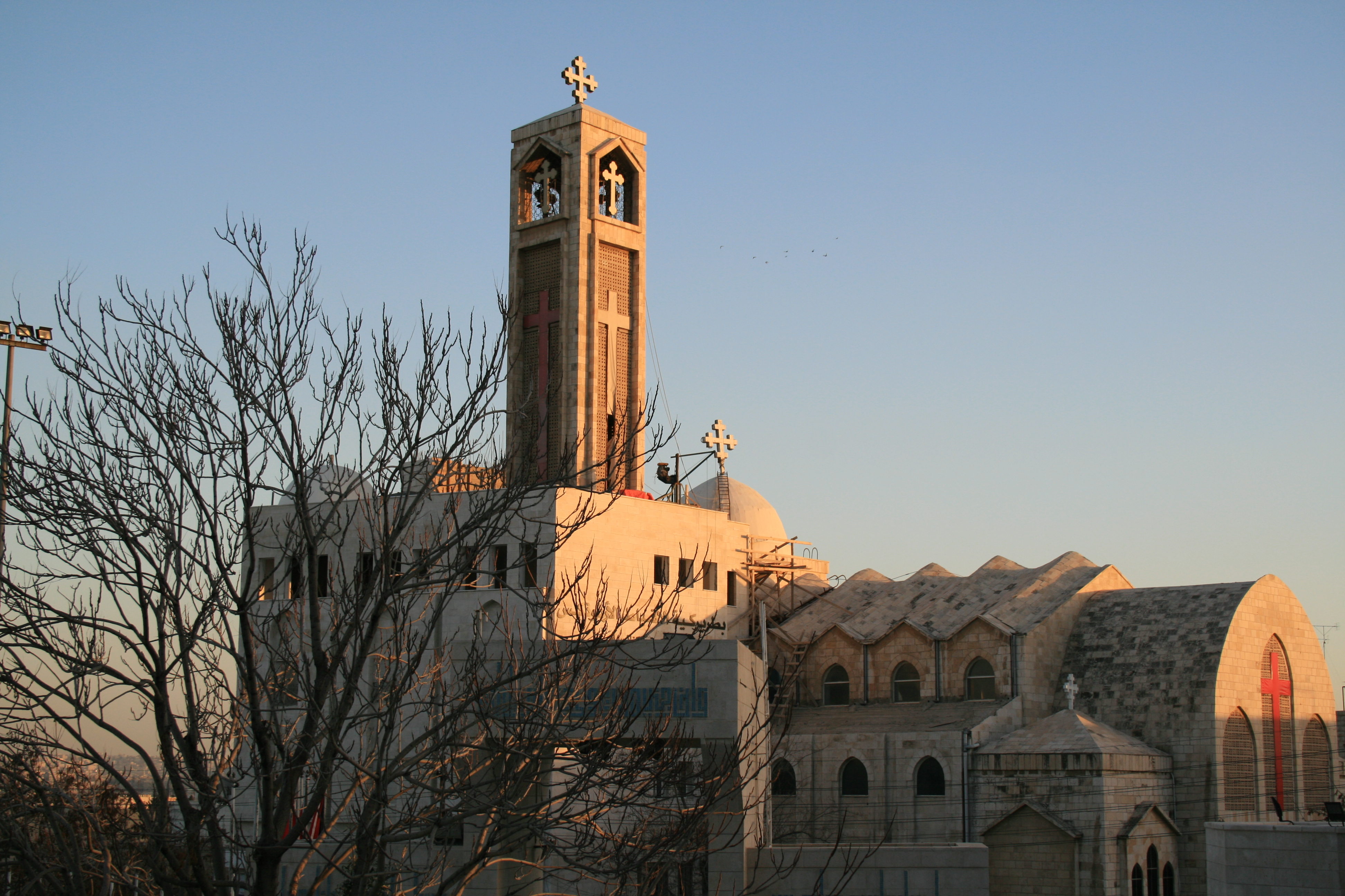 Coptic Church Amman, Jordan